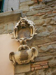 Coat of Arms on the facade of Palazzo Rospigliosi di via del Duca at Pistoia